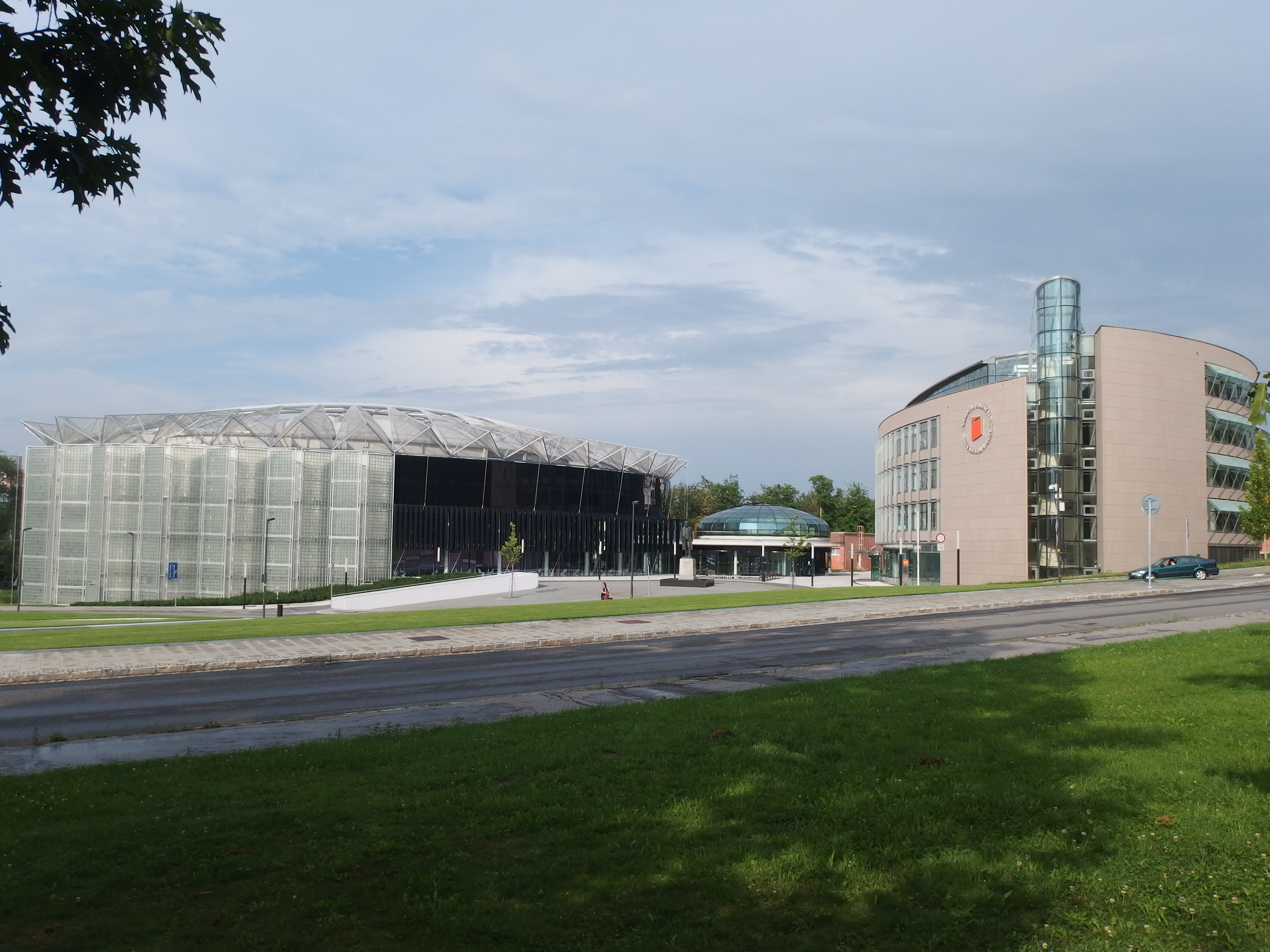 Zlín, Czech Republic.